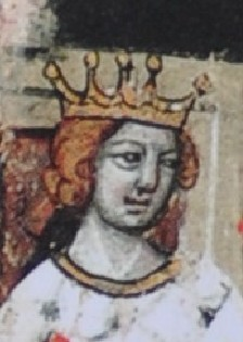 Arnulf of Carinthia